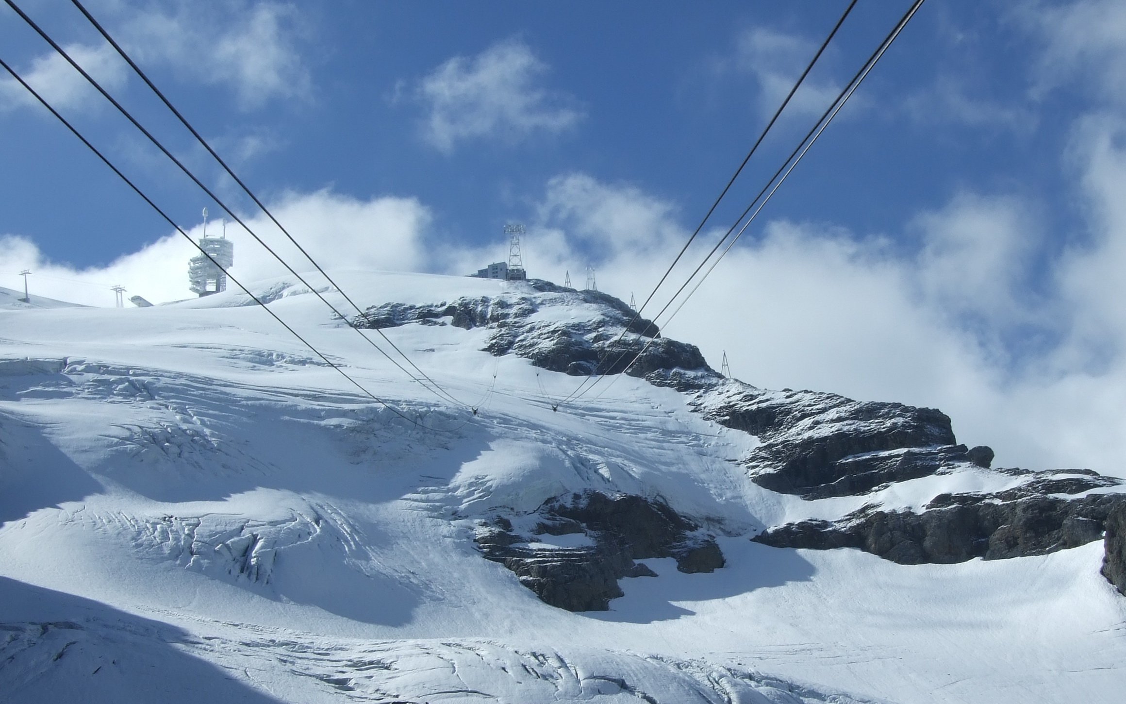 Stand-Klein Titlis cableway (wallpaper)